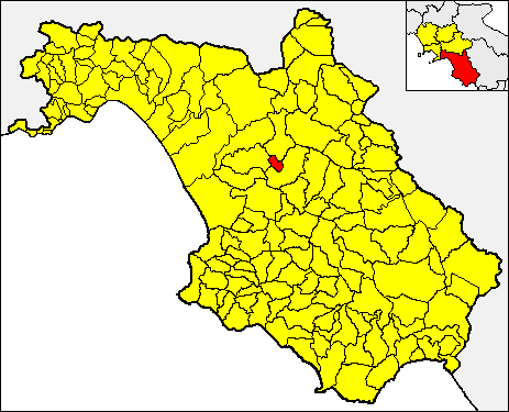 Locator map of the municipality of Controne (red) within the Province of Salerno